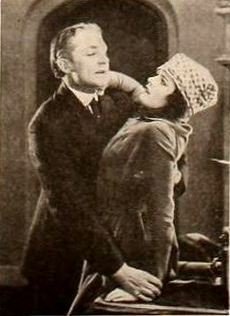 Still from the American film The Shadow of Rosalie Byrnes (1920) with Alfred Hickman and Elaine Hammerstein, on page 2929 of the March 27, 1920 Motion Picture News.